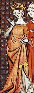 Adelaide of Frioul